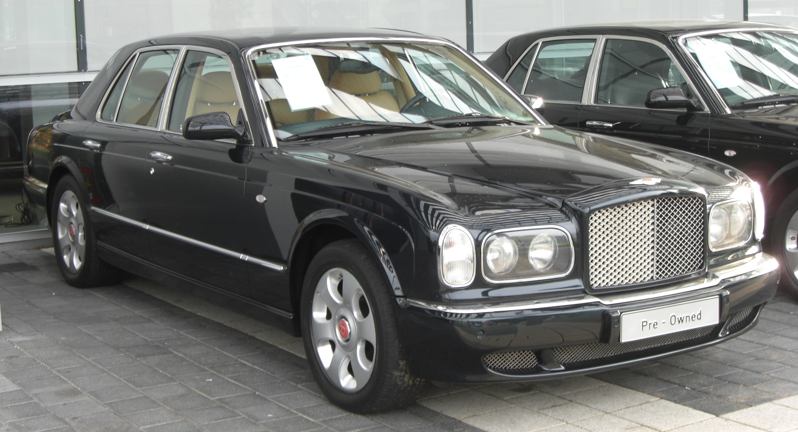 Bentley Arnage